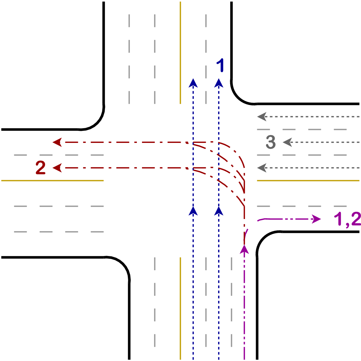 Diagram of Hook turn intersection